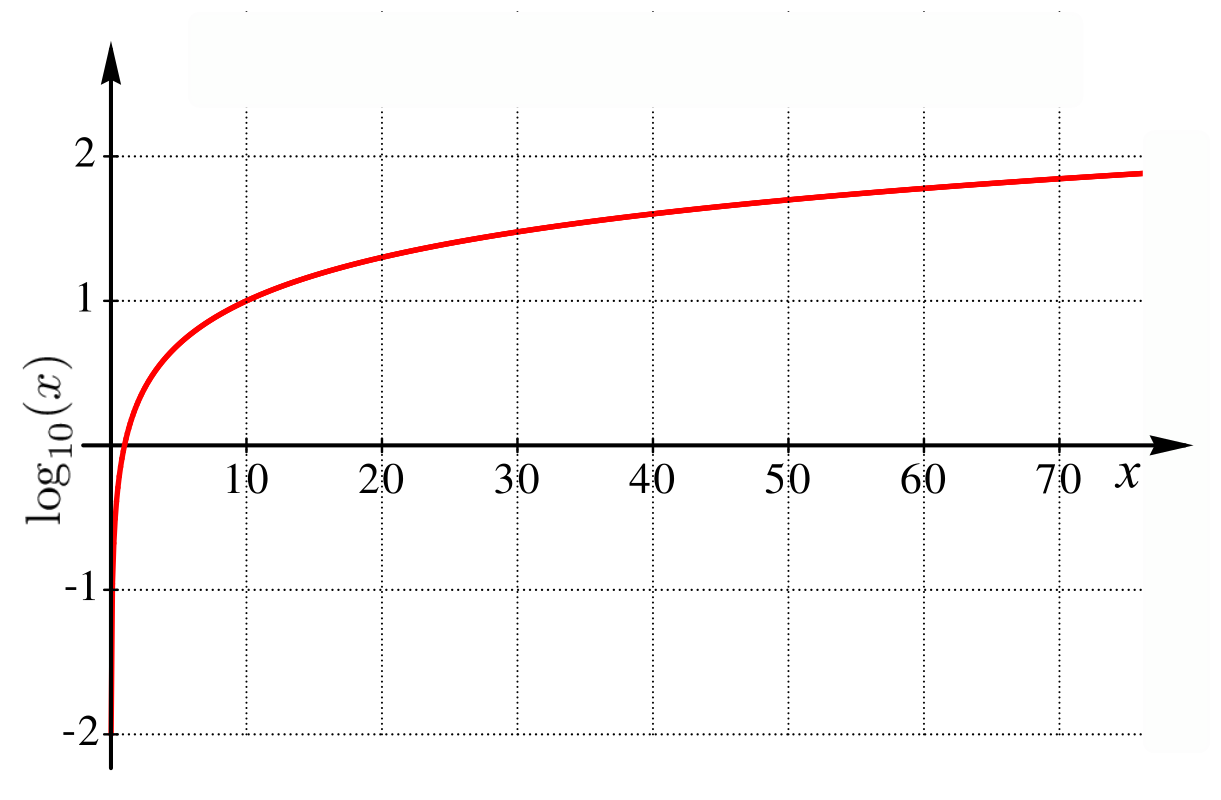 Logarithm of base 10